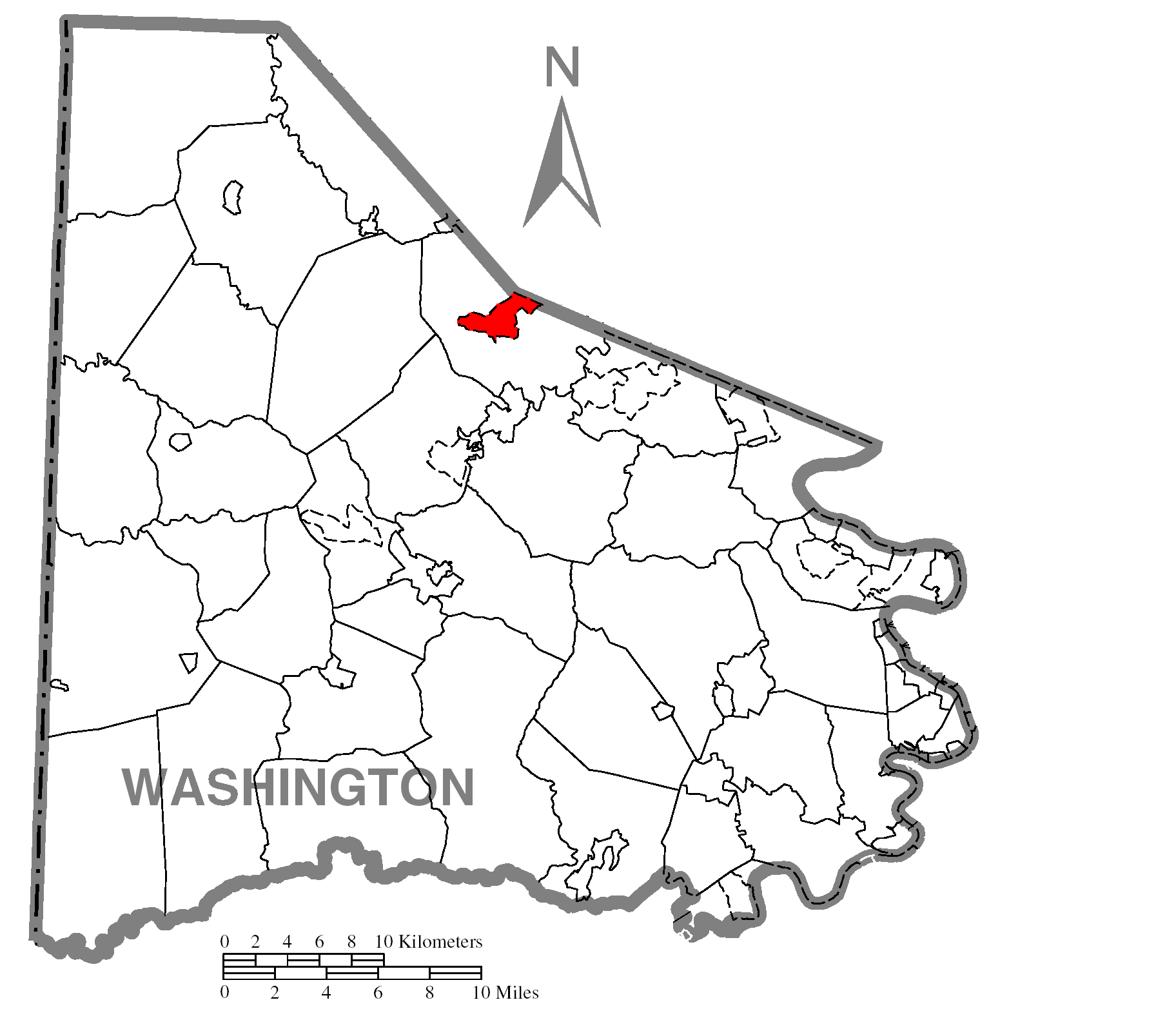 Map of Washington County higlighting Cecil-Bishop.